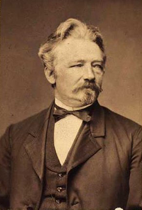 Hans Jørgen Hammer (1815-1882), Danish painter and army officer